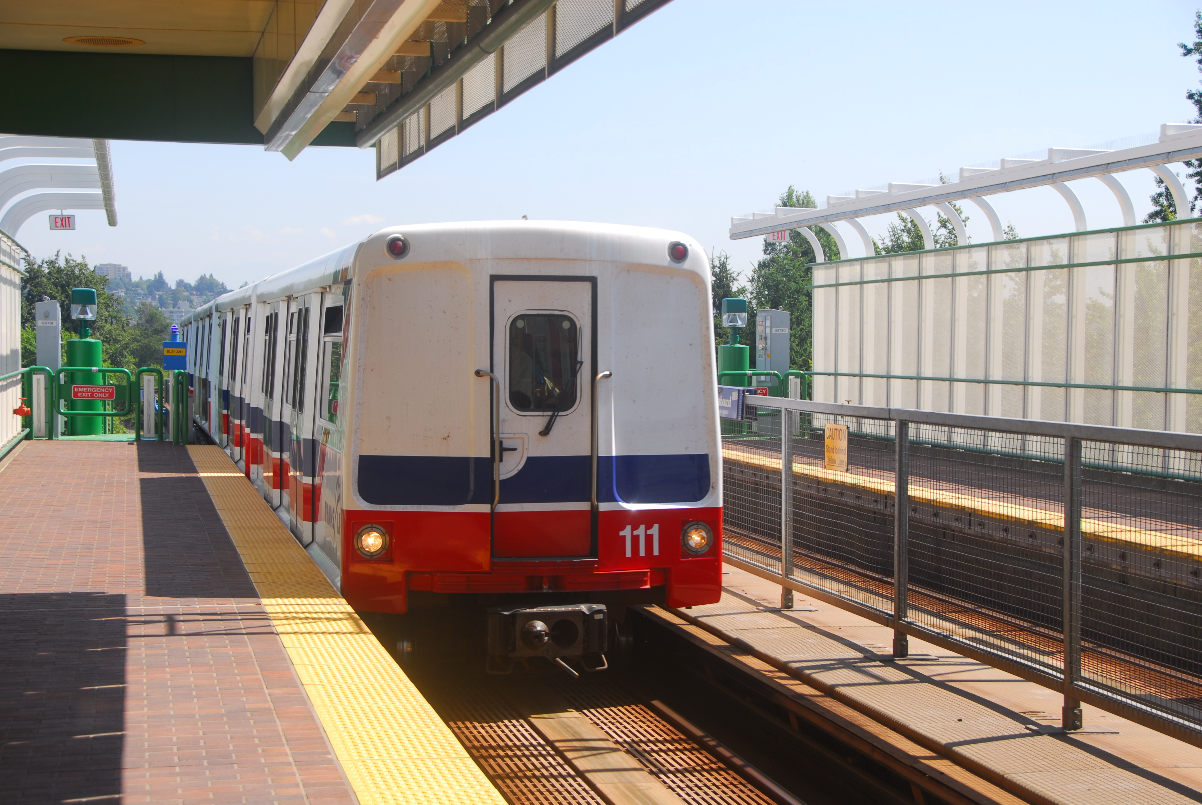 A TransLink Mk 1 SkyTrain at 22nd Street Station in New Westminster, British Columbia, Canada